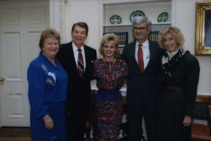 President Ronald Reagan, Phil Gramm, and Clint Peoples (2-10) Photo Op. with Clint Peoples President Ronald Reagan, Gretchen Carlson, Rudy Boschwitz, Ellen Boschwitz (12-25) Photo Op. with Miss America 1989, Gretchen Carlson